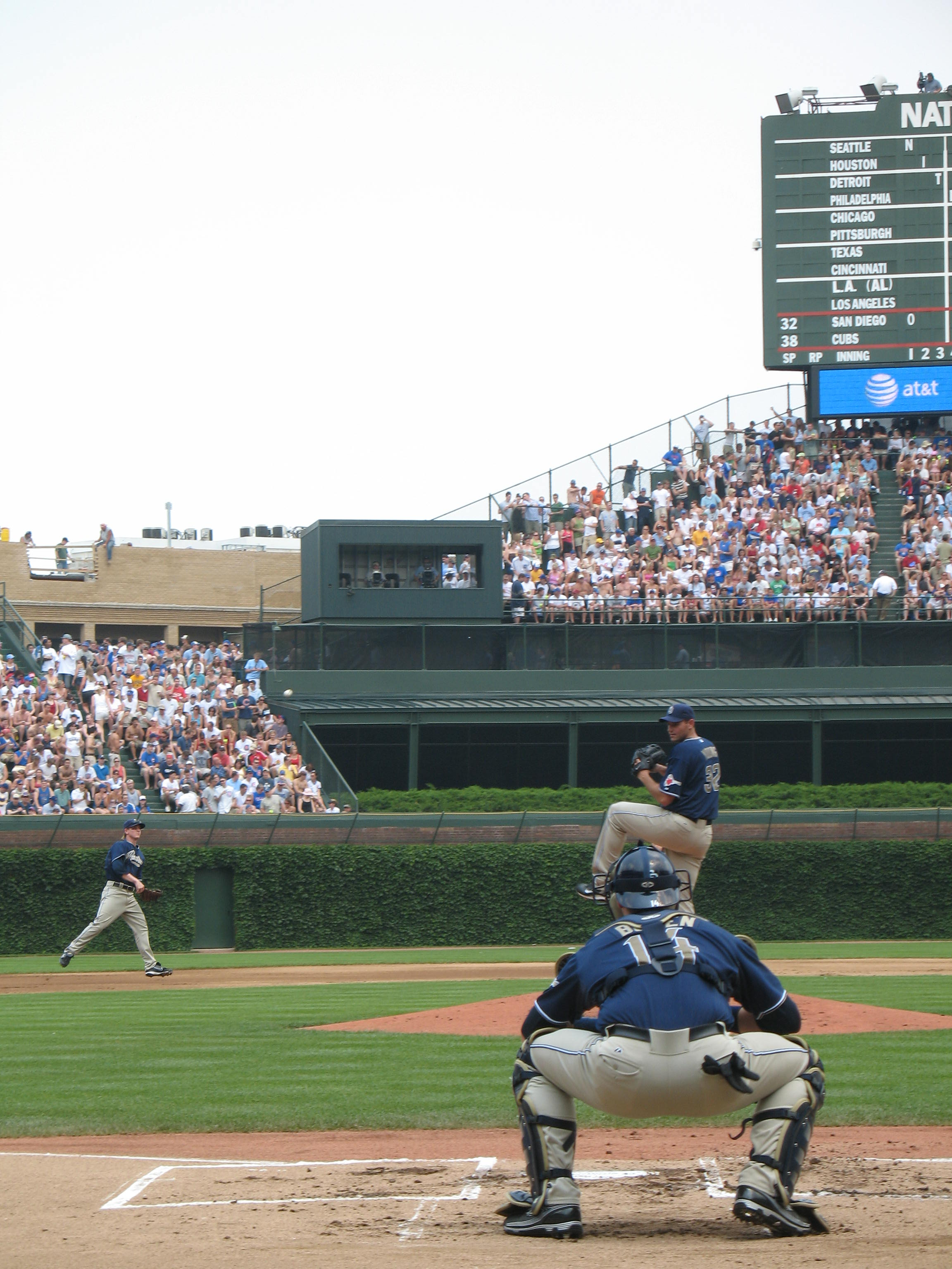 Description Chris Young (Mid inning warmup) DateJune 16, 2007SourceSelf-photographedAuthorUser:TonyTheTigerPermission (Reusing this file) I, Antonio Vernon, am the photographer and copyright holder. I release this photo for all fair uses. 13:15, 17 June 2007 . . TonyTheTiger . . 2304×3072 (748 KB) Chris Young (Mid inning warmup)